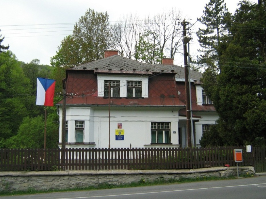 Municipal office in Malá Morávka, District Bruntál, Cz